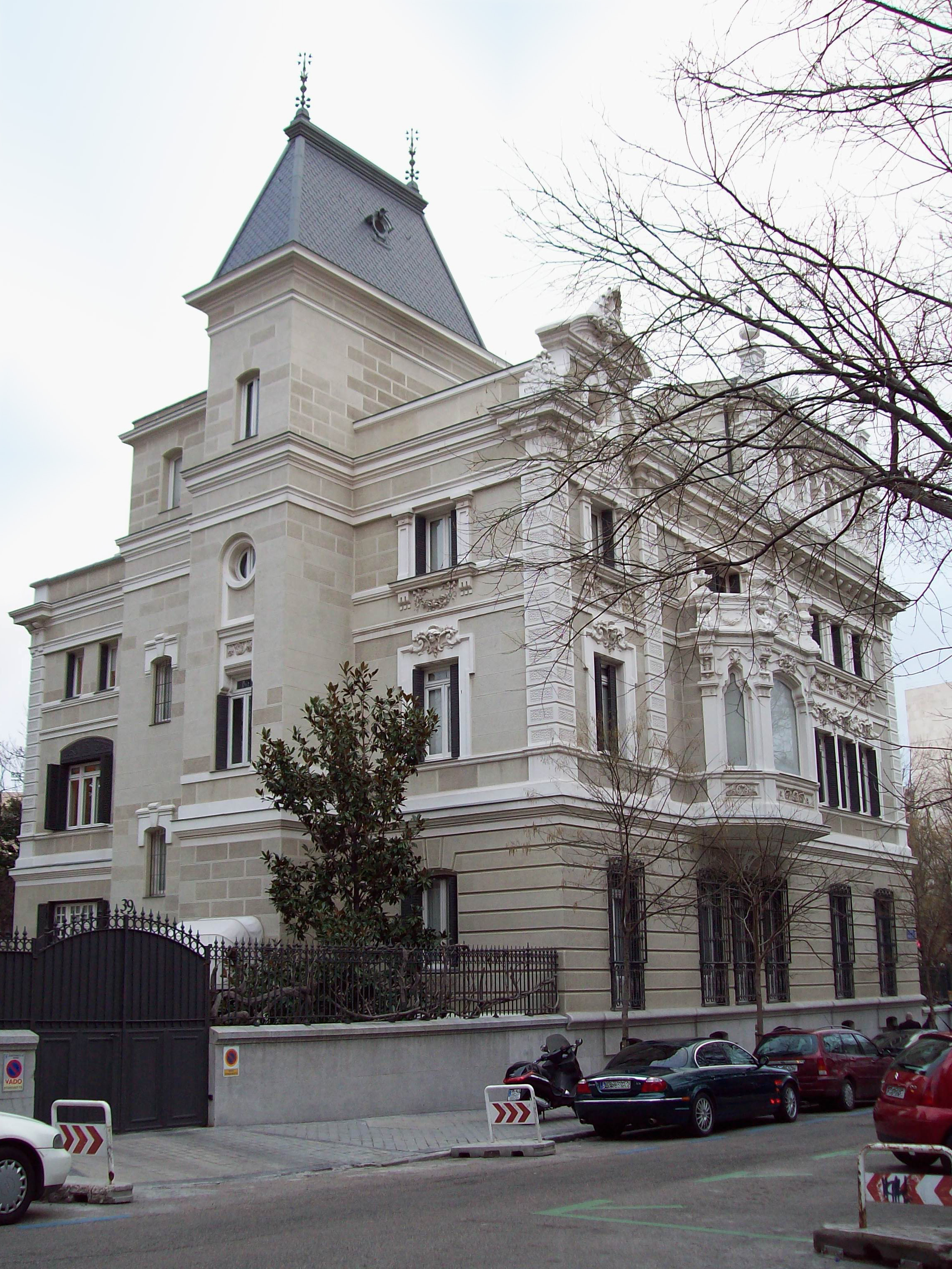 View, from the south-west angle (Calle de Rafael Calvo, street), of Palacete de Eduardo Adcoch, a building at 37 Paseo de la Castellana (an avenue) in Chamberí district in Madrid (Spain).